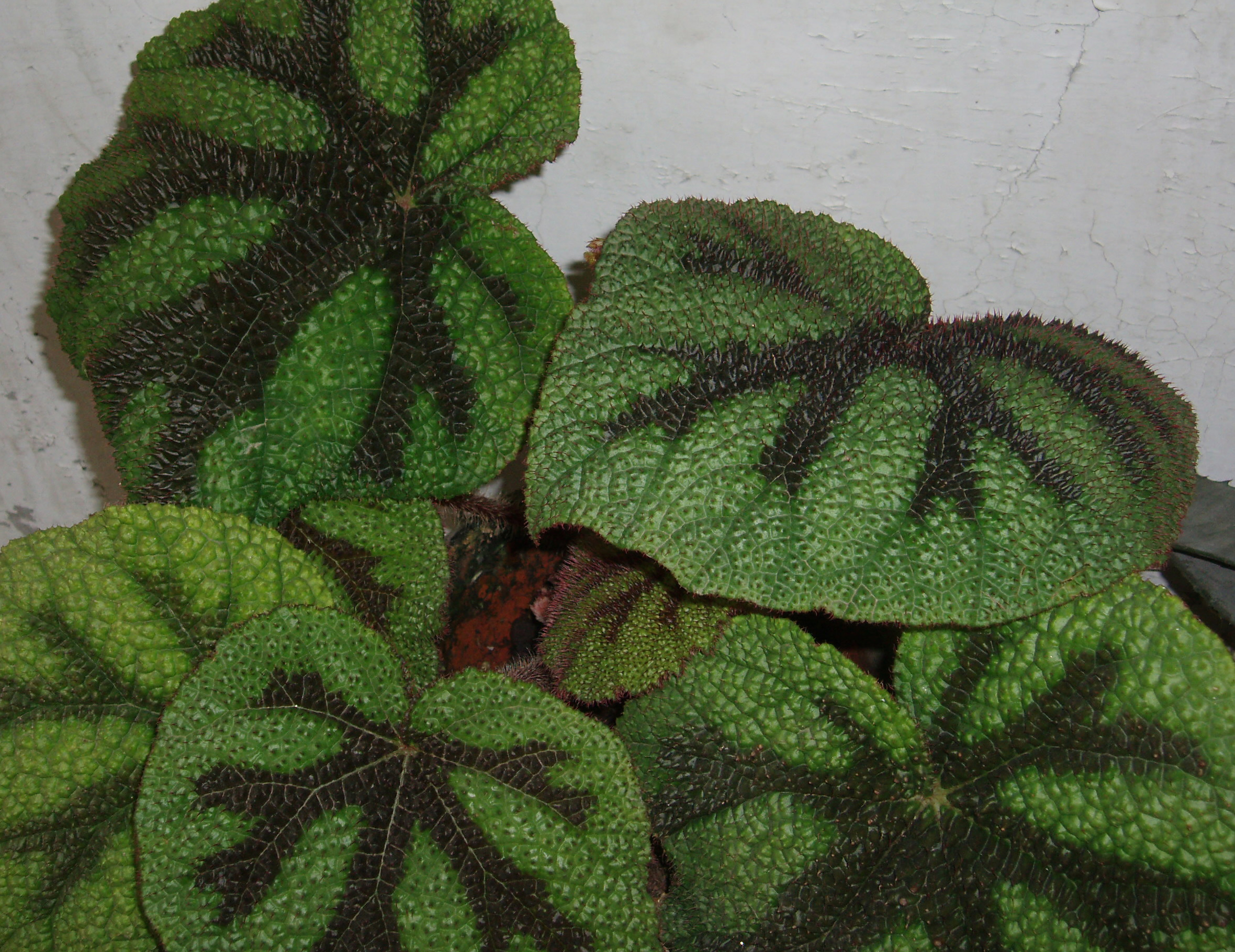 Leaves of Iron Cross Begonia